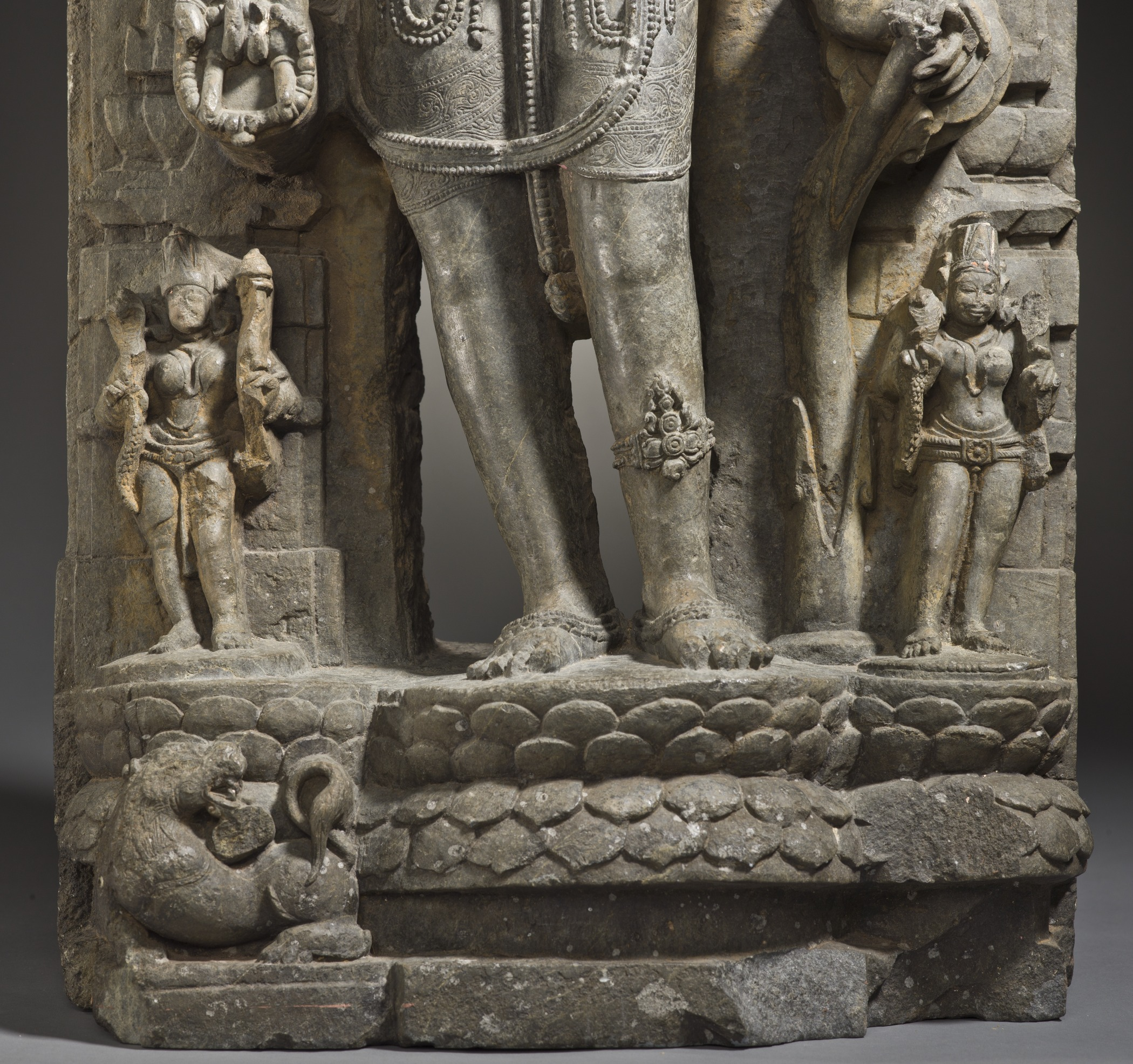 India, Odisha (Orissa), 1050-1100 Sculpture Magnesian schist Gift of Mr. and Mrs. Harry Lenart (M.77.82) South and Southeast Asian Art